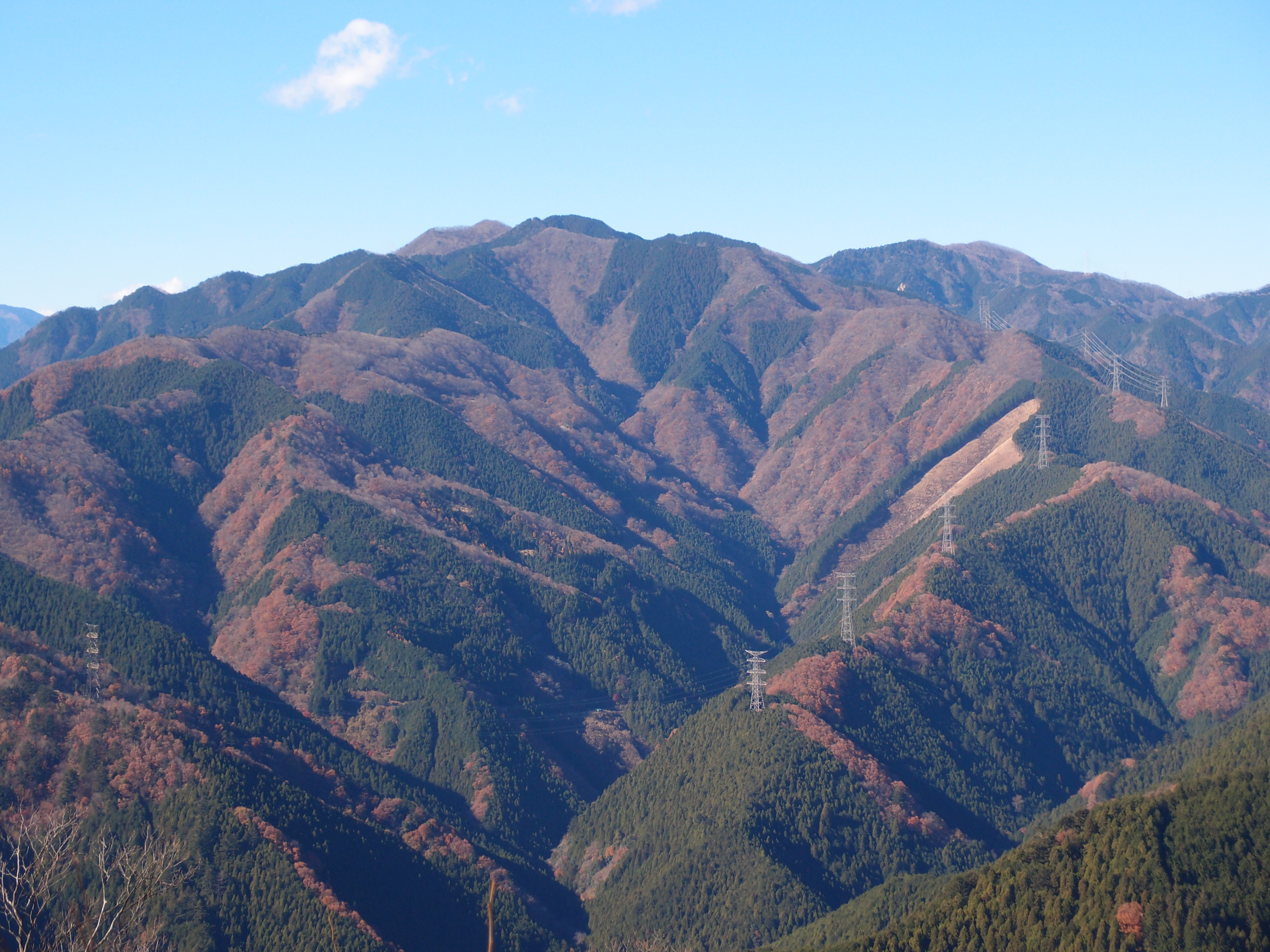 The ESE side of Mount Kawanori from top of Mount Iwatakeishi.